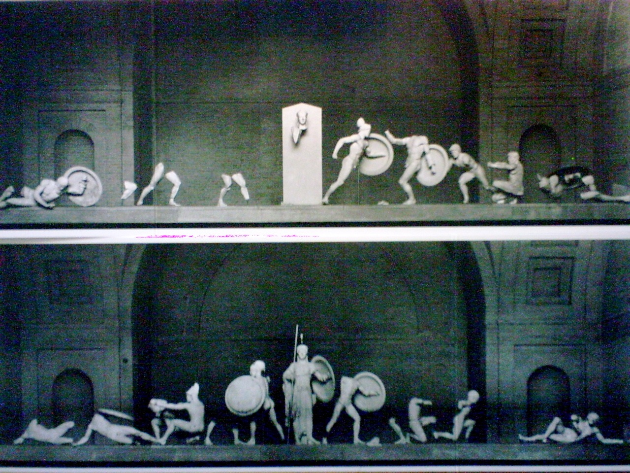 The 2 pediments of the Temple of Aphaia representing the 2 Trojan wars (up: East, down: West), ca. 505–500 BC.